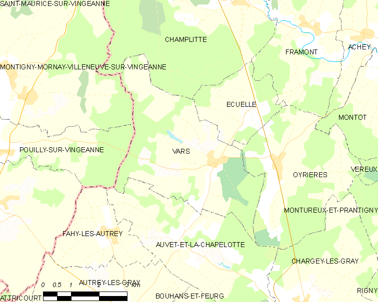 Map of French municipality